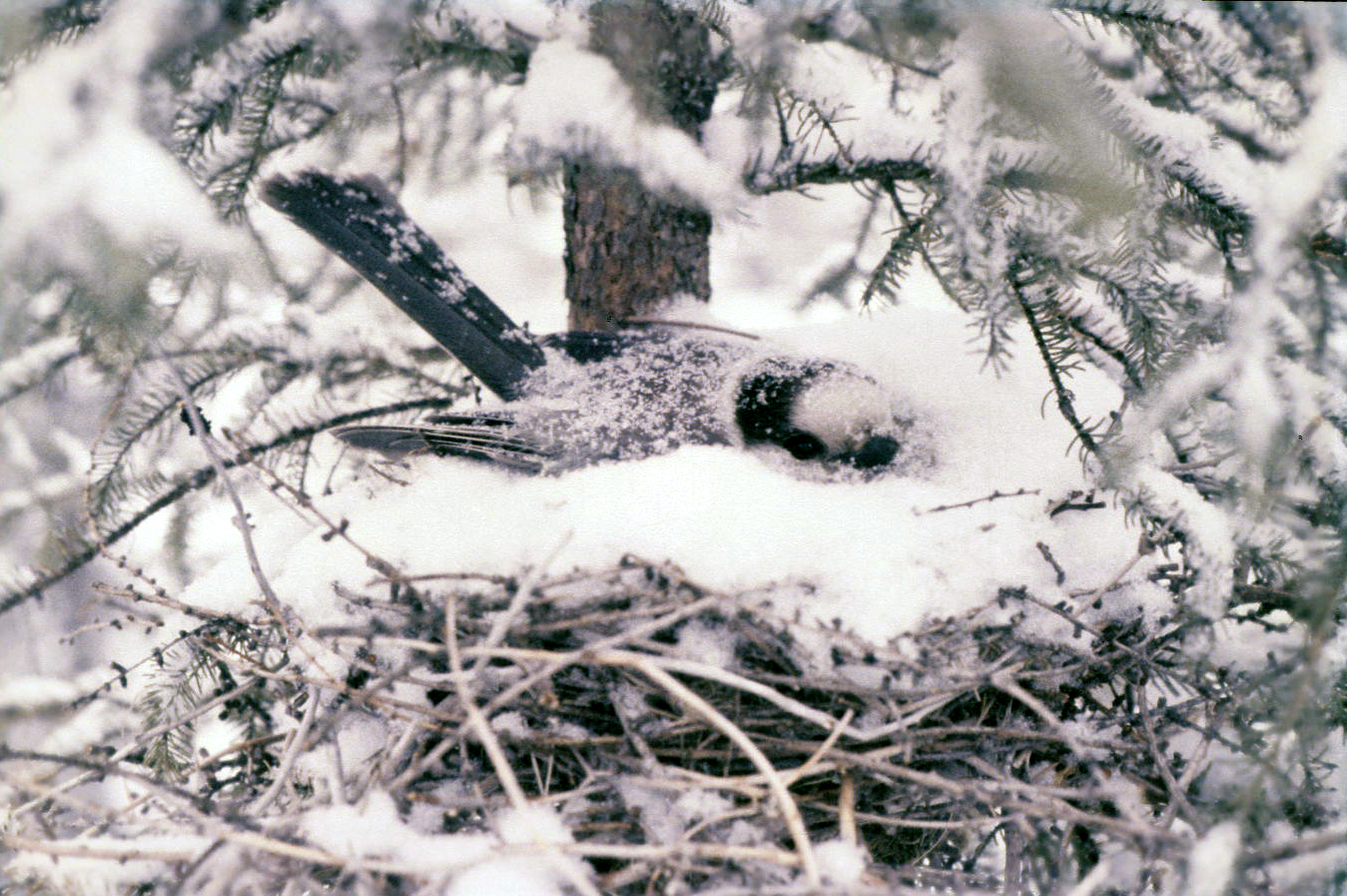 Female Gray Jay incubating her eggs during a winter snow storm. Algonquin Park, Ontario, Canada.